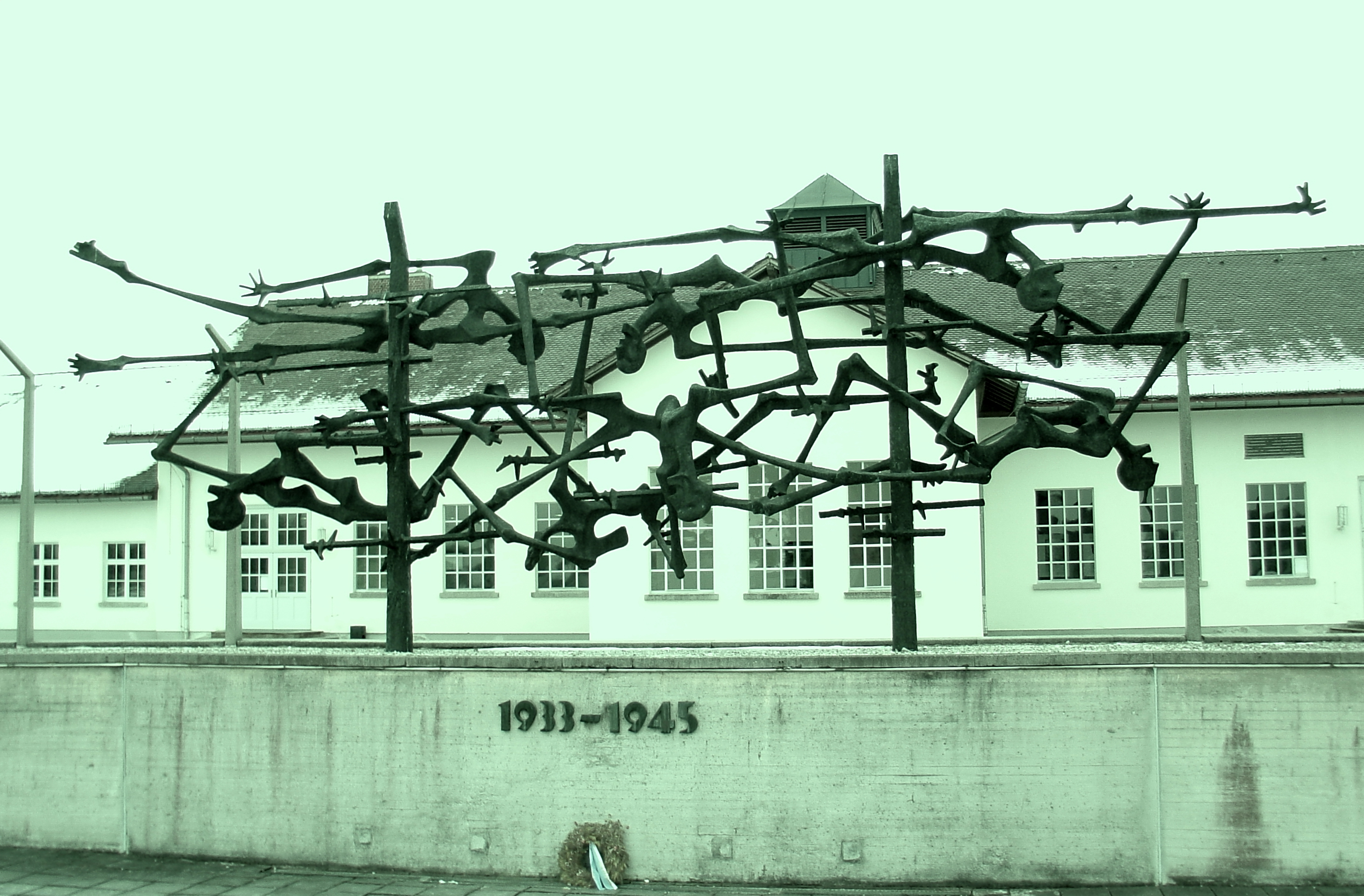 Please, have this description accessible to all by translating it in different languages. Sculpture au camp de concentration nazi de Dachau. La sculpture est à la mémoire de tous ceux qui sont morts électrocutés en tentant de traverser les clotures électriques entourant le camp alors qu'il était en fonction.